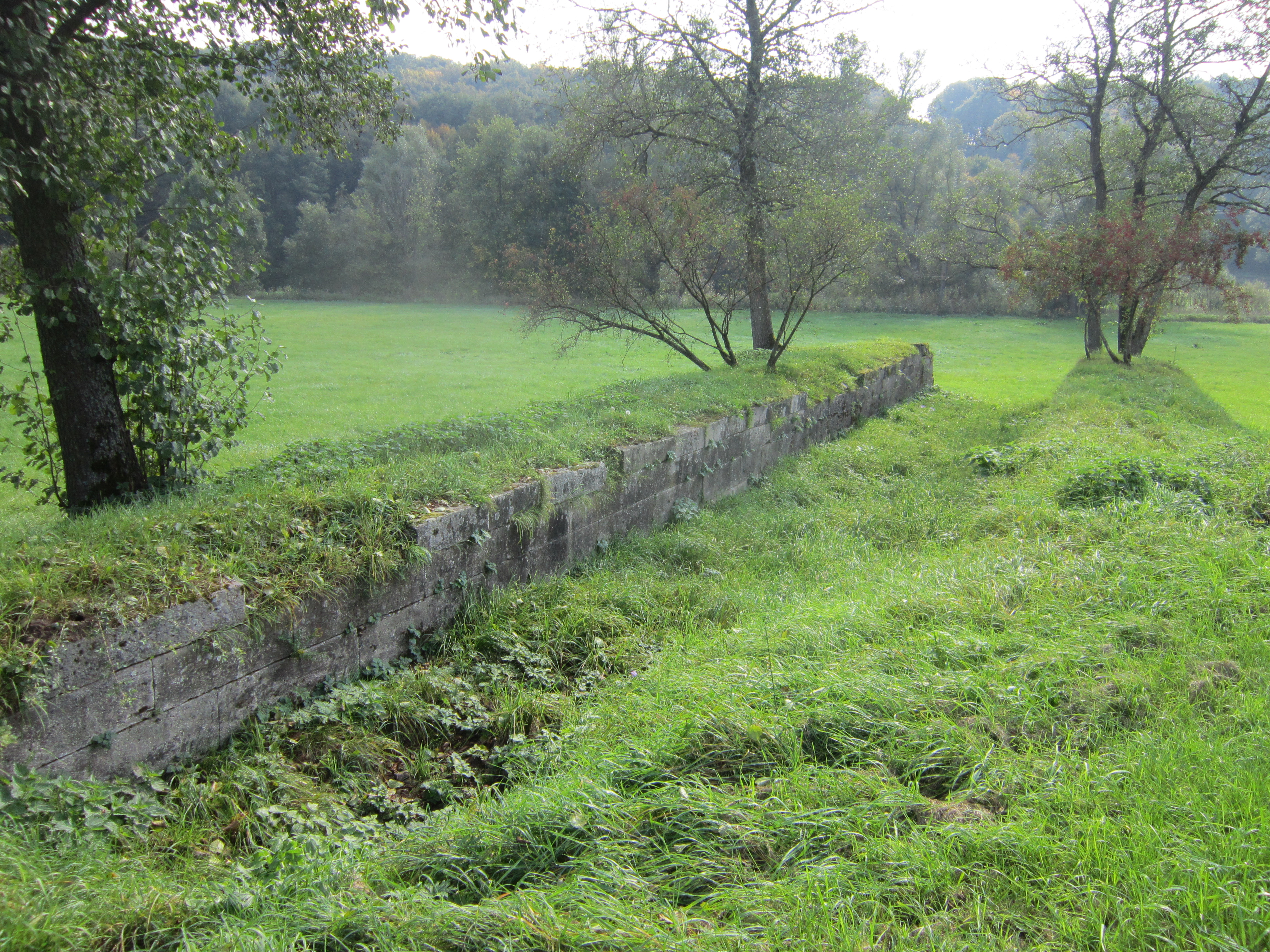 Remainings of the canal of the "Echo", the beginning of a tunnel in Kleinbrach, a quarter of the German spa town of Bad Kissingen in Lower Franconia (Bavaria).